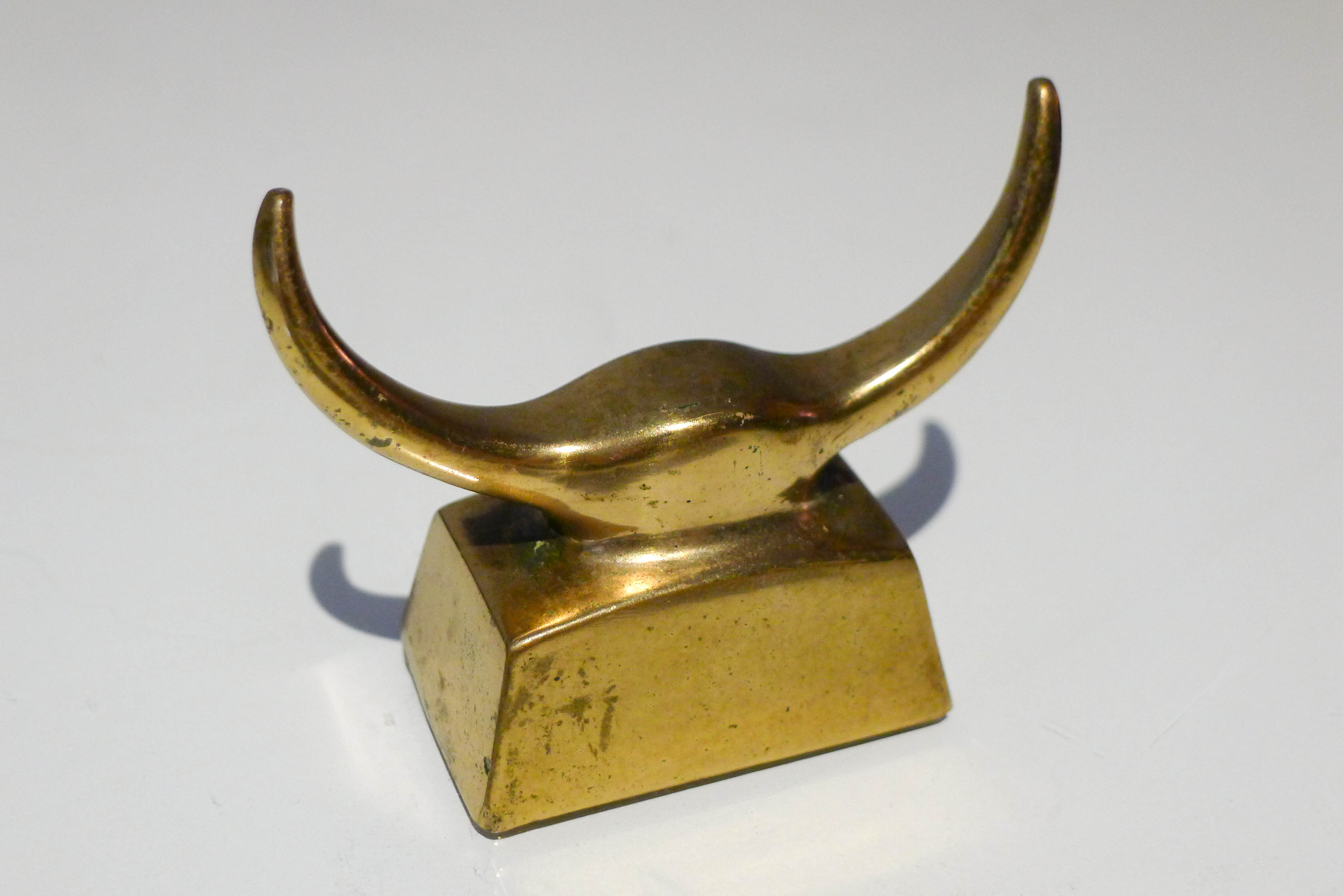 The prize trophy awarded to recipients of the Order of the Golden Horn